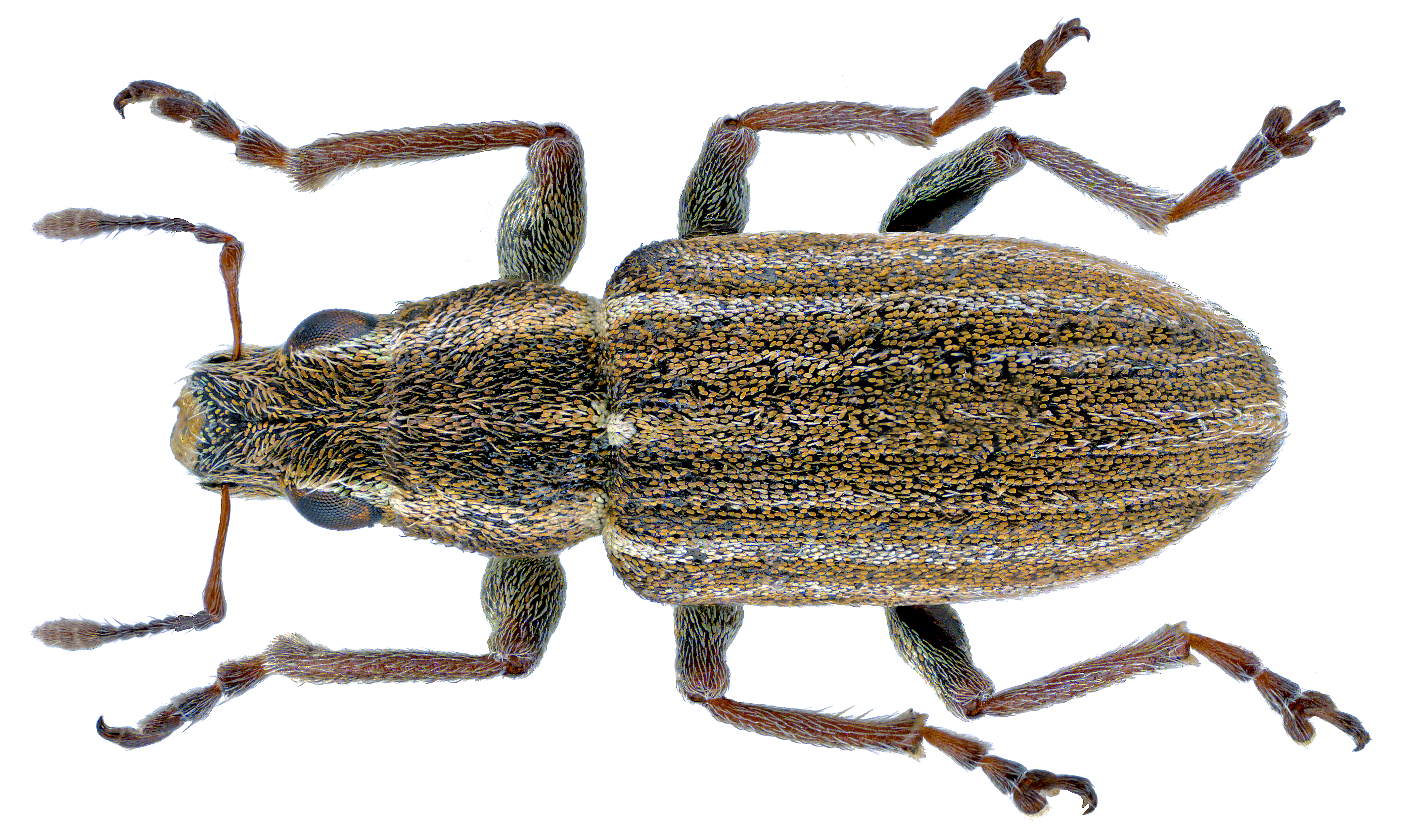 Family: Curculionidae Size: 4,0 mm (3,5-4,5 mm) Origin: Palaearctic Ecology: lives on Lotus-, Trifolium-, Medicago-, Pisum species Location: Germany, Bavaria, Upper Franconia, Selbitz leg.det. U.Schmidt, 15.IX.2003 Photo: U.Schmidt, 2013